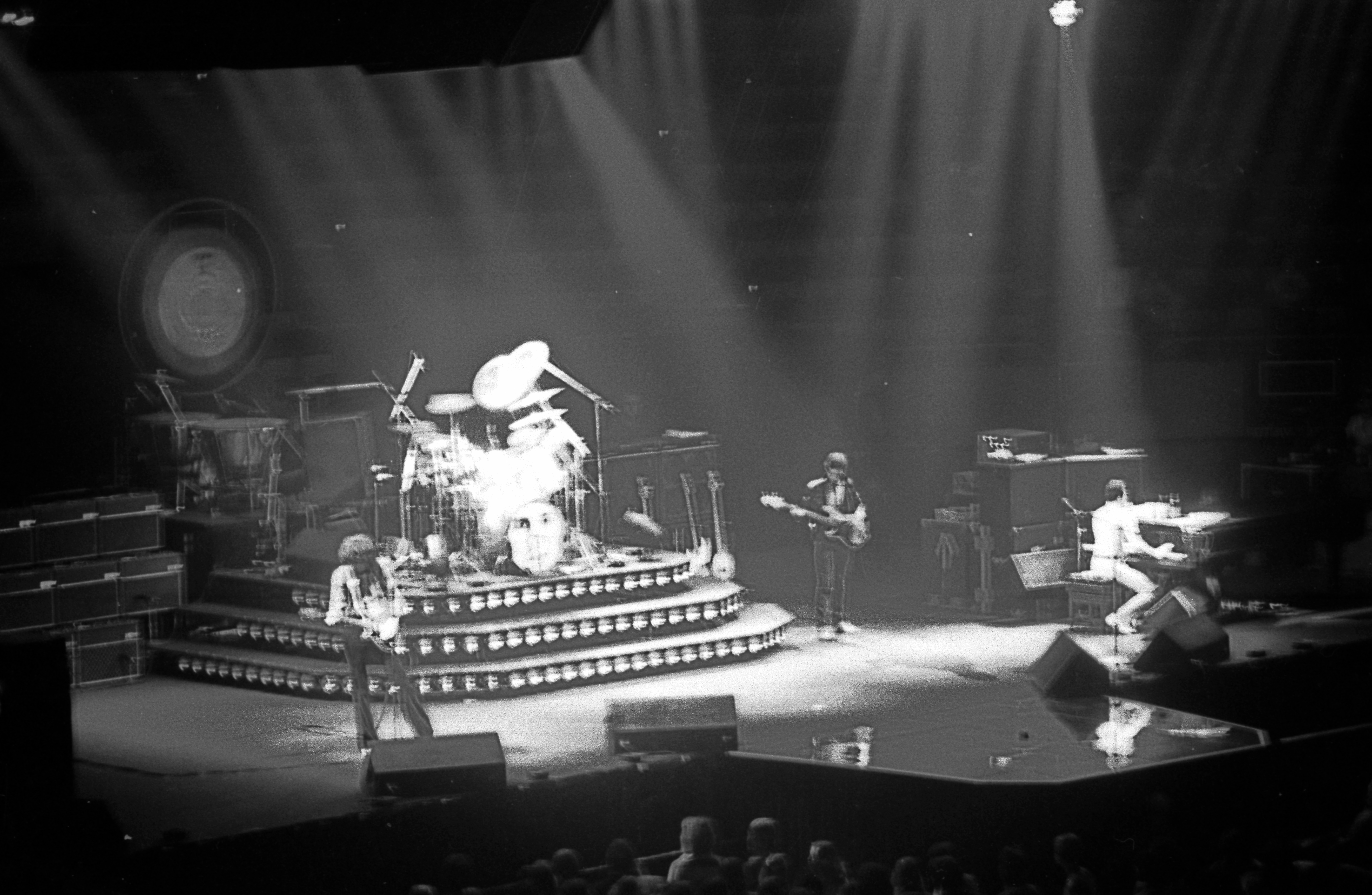 The rock group Queen, performing at the Oakland Arena in 1980